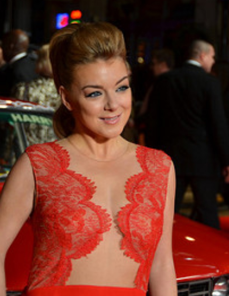 Sheridan Smith in December 2013